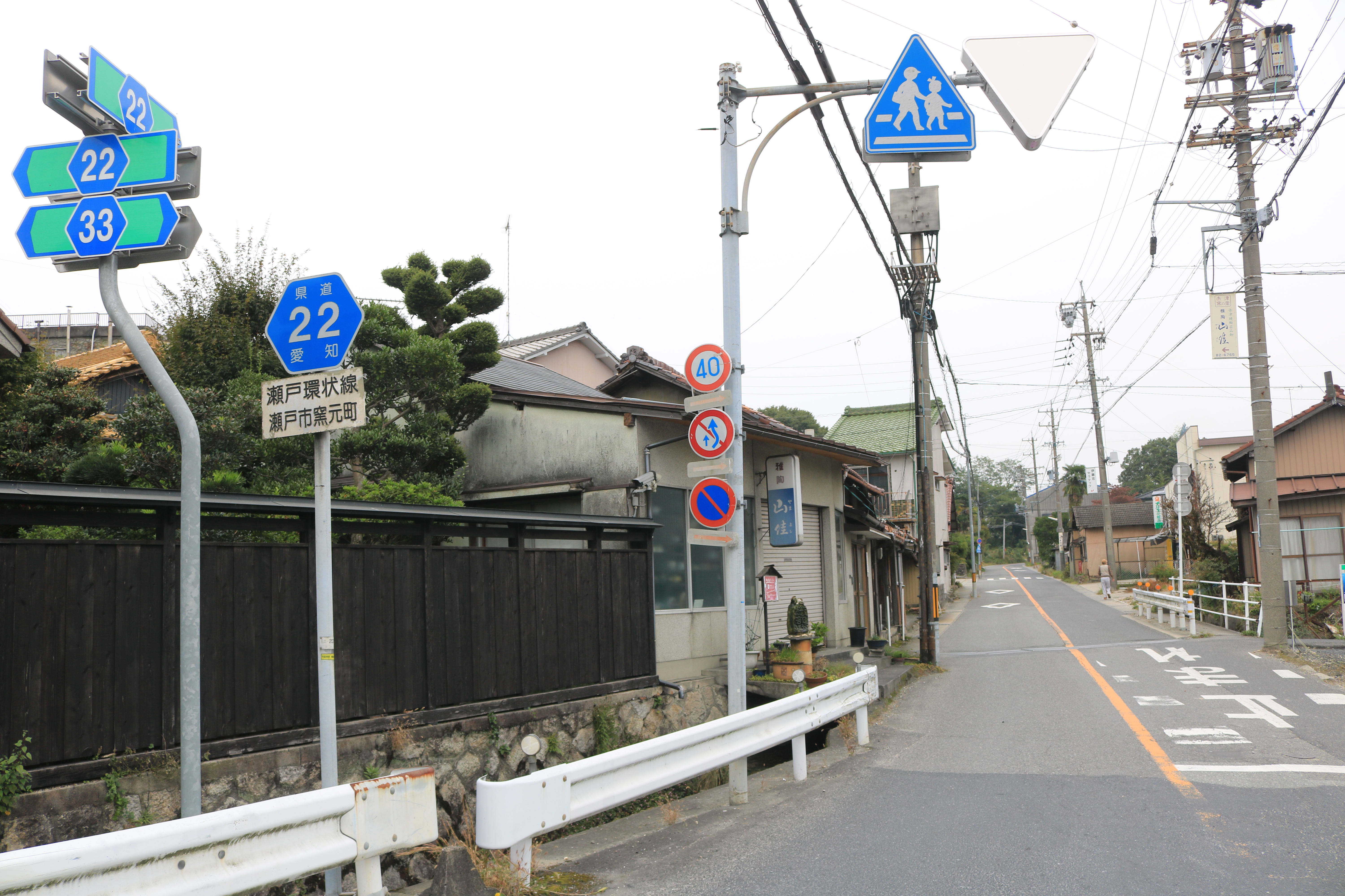 Aichi Prefectural Road Route 22 in Kamamoto-cho, Seto, Aichi prefecture, Japan.